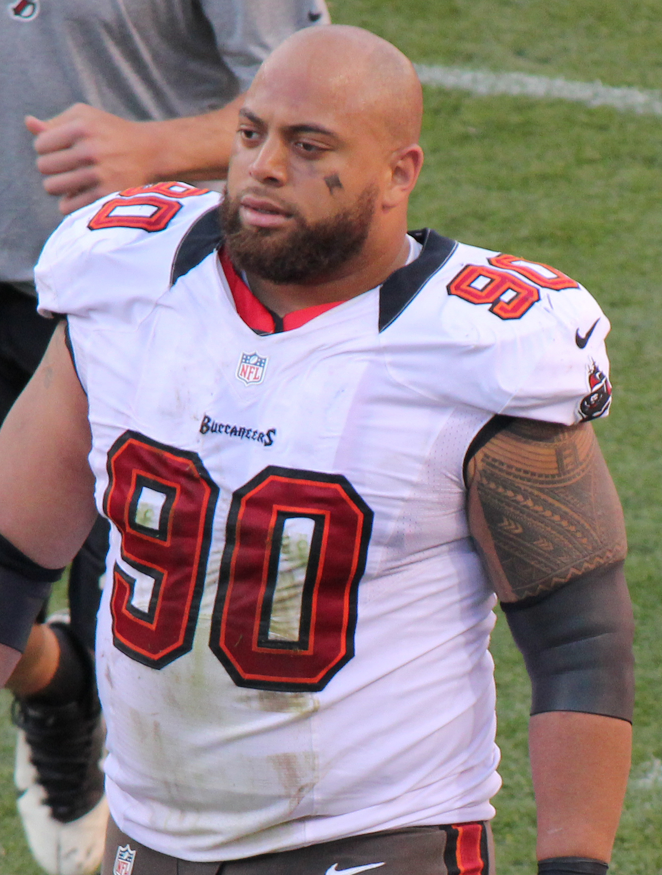 Roy Miller, a player on the National Football League.